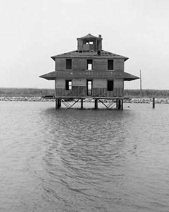 Port Mahon Lighthouse, Delaware Bay at mouth of Mahon River, on State Rou, Little Creek vicinity (Kent County, Delaware) cropped Object location39° 11′ 05″ N, 75° 24′ 04″ W